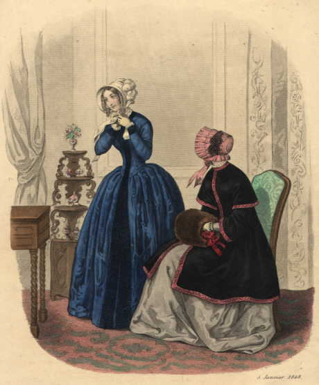 Fashion plate showing coat, muff and bonnets from La Mode 1848